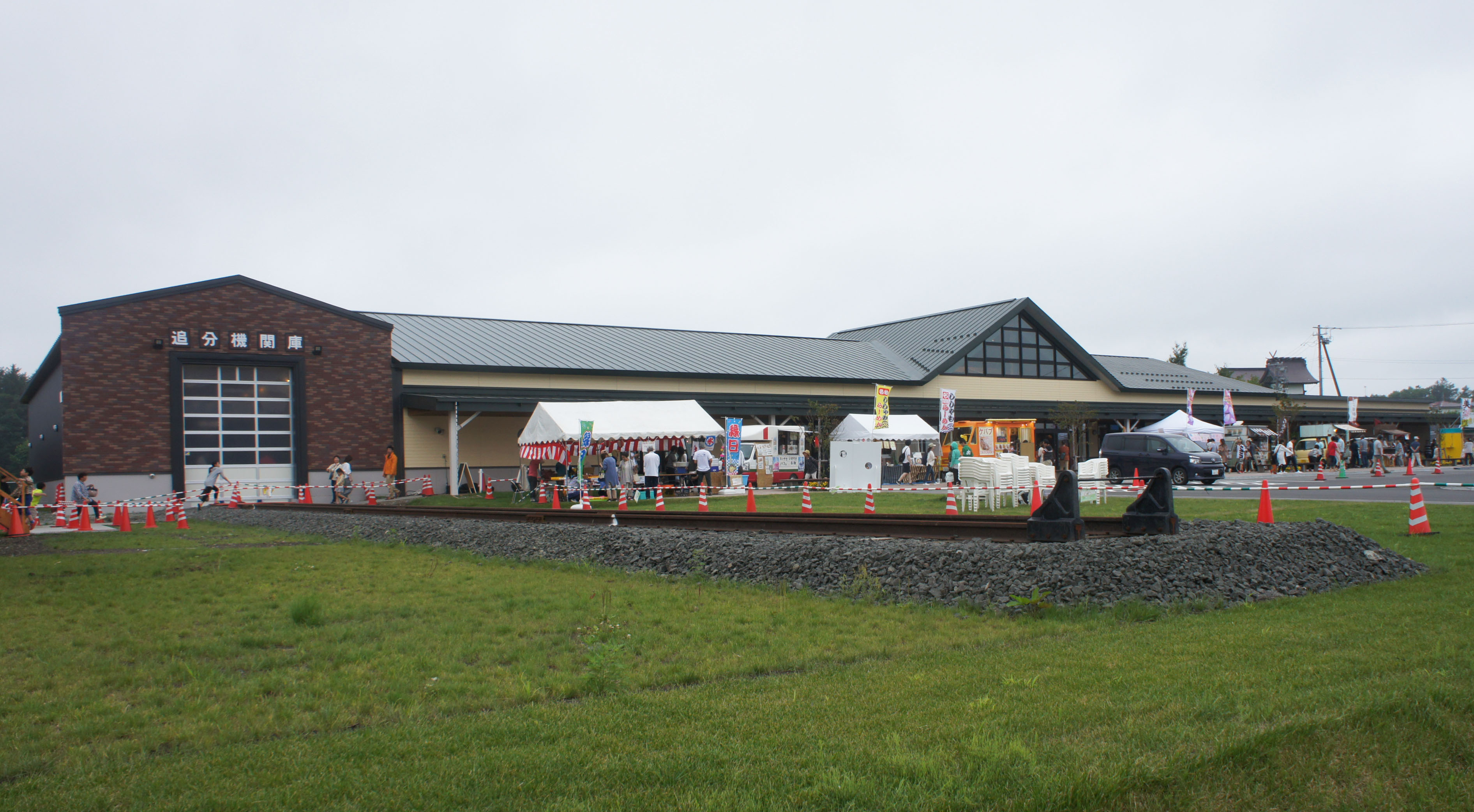 Appearance of Michinoeki Abira D51Station